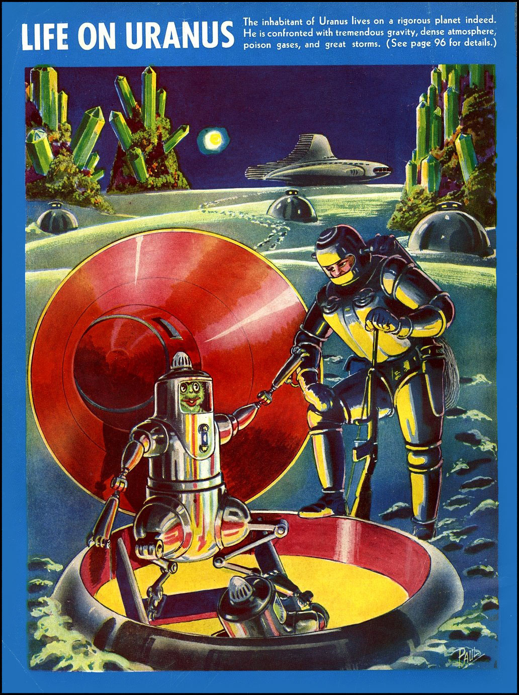 Back cover of June 1940 issue of Fantastic Adventures.